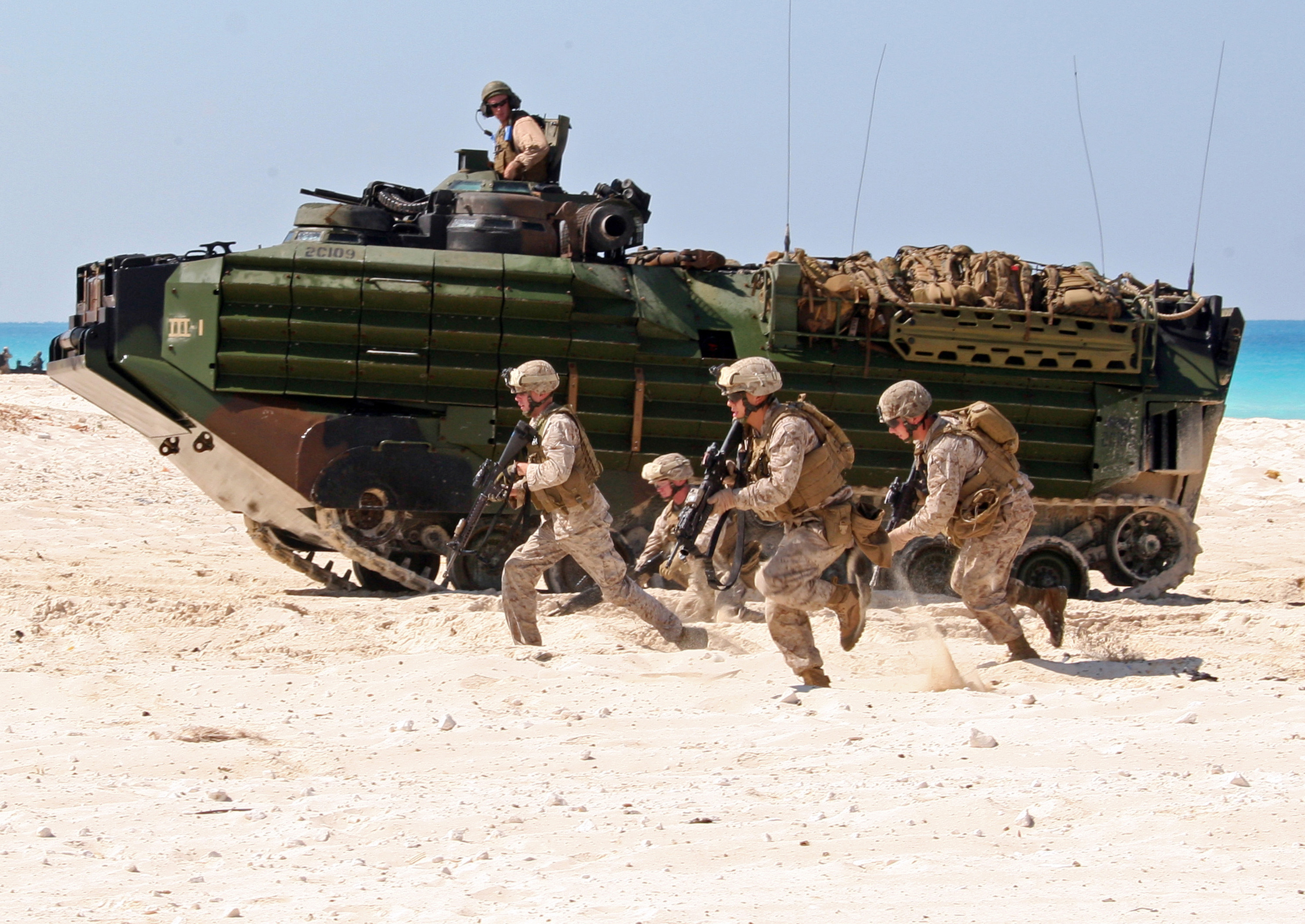 U.S. Marines with India Company, Battalion Landing Team, 3rd Battalion, 2nd Marine Regiment, 22nd Marine Expeditionary Unit run on the beach during an amphibious assault demonstration conducted as part of Exercise Bright Star 2009 in Alexandria, Egypt, on Oct. 12, 2009. The multinational exercise is designed to improve readiness and interoperability and strengthen the military and professional relationships among U.S., Egyptian and other participating forces. Bright Star is conducted by U.S. Central Command and held every two years.